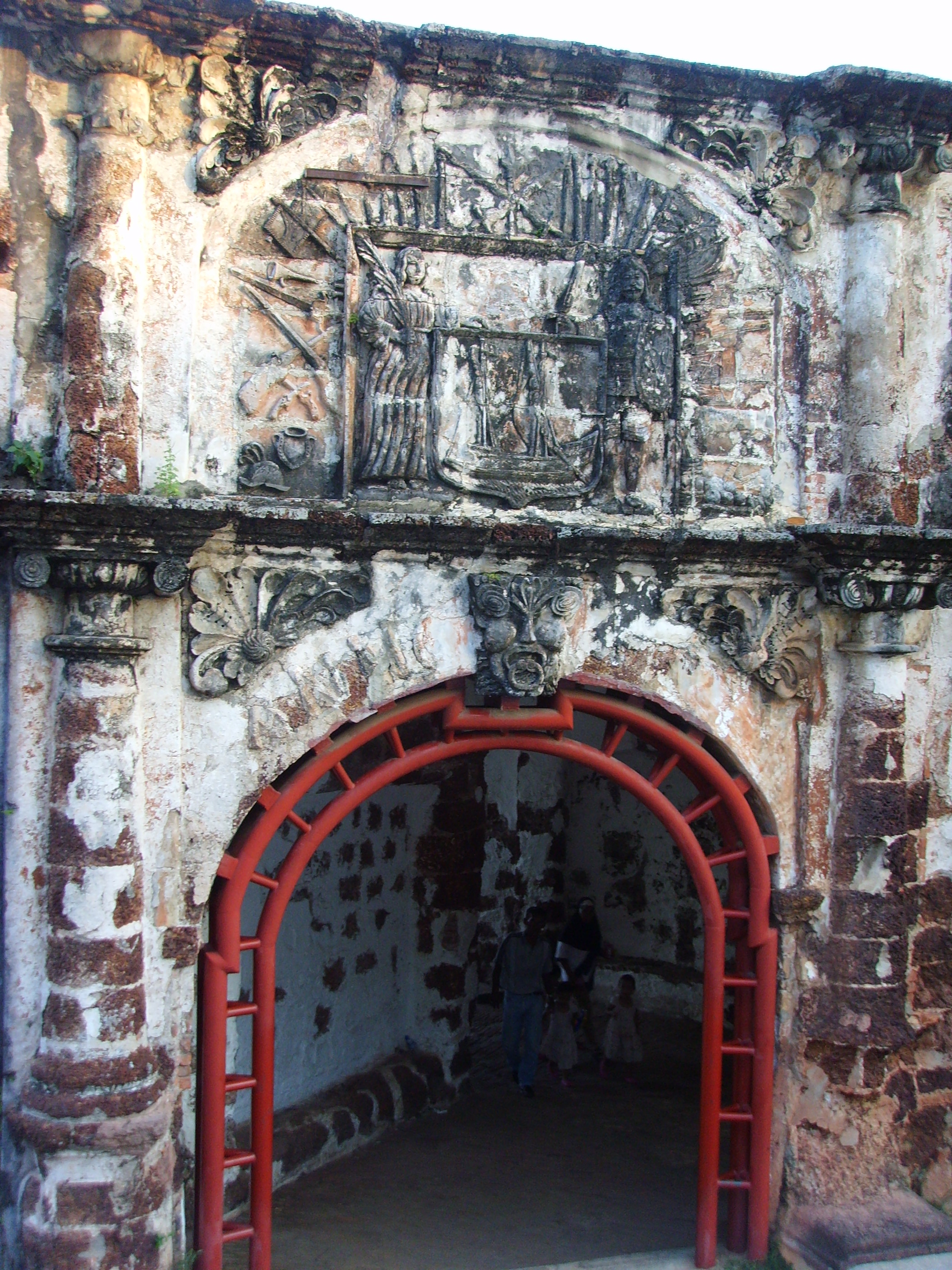 Porta de Santiago, Malacca